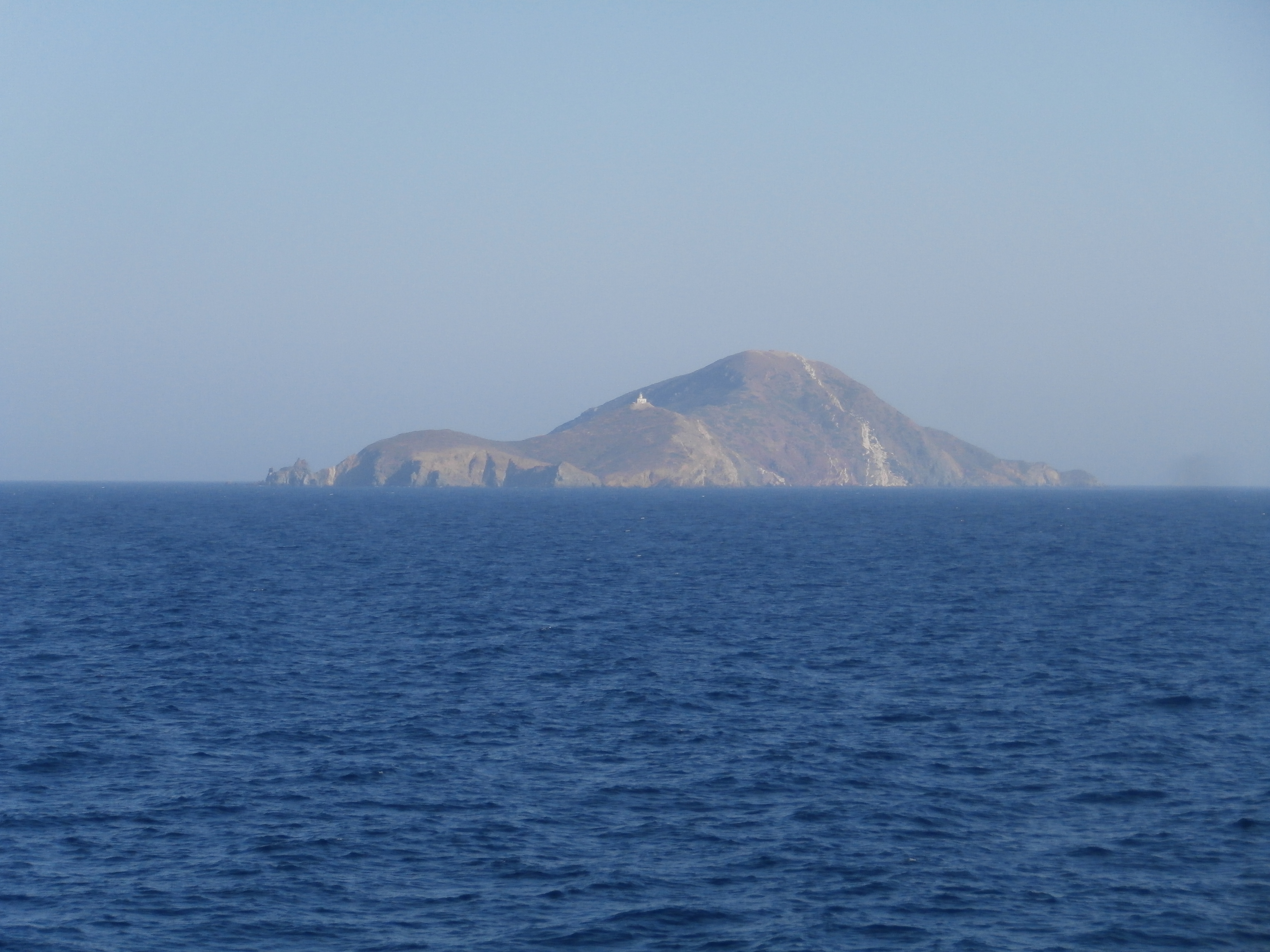 The island of Velopoula for the NW